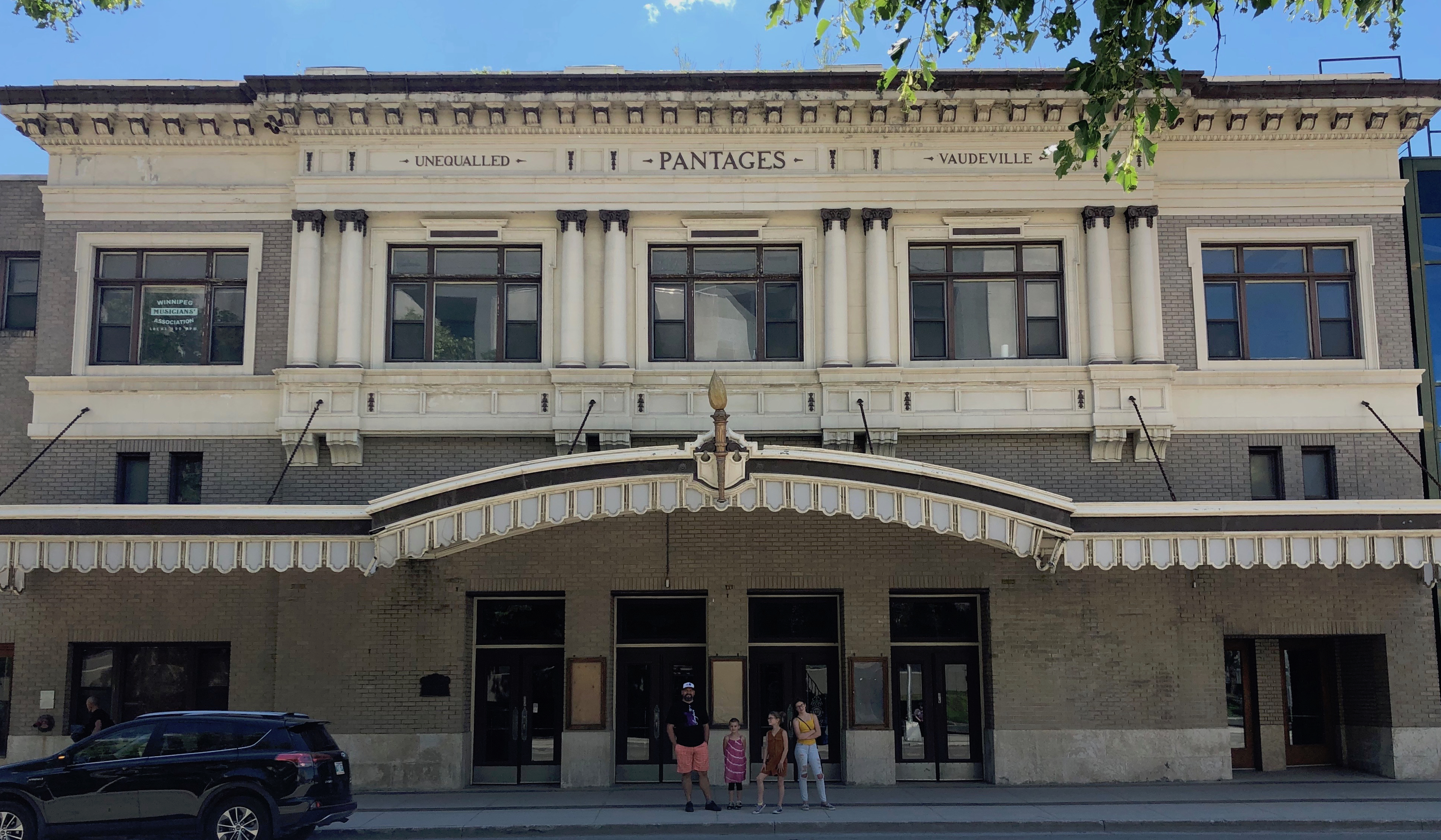 Pantages Playhouse Theatre National Historic Site of Canada